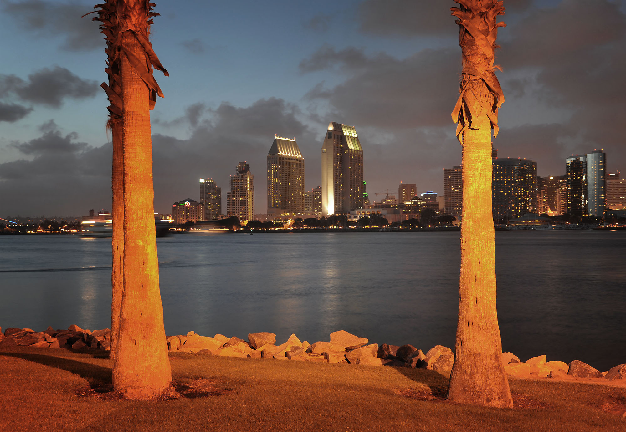 A nice night view of downtown San Diego from Coronado's ferry landing area. Greg Bulla